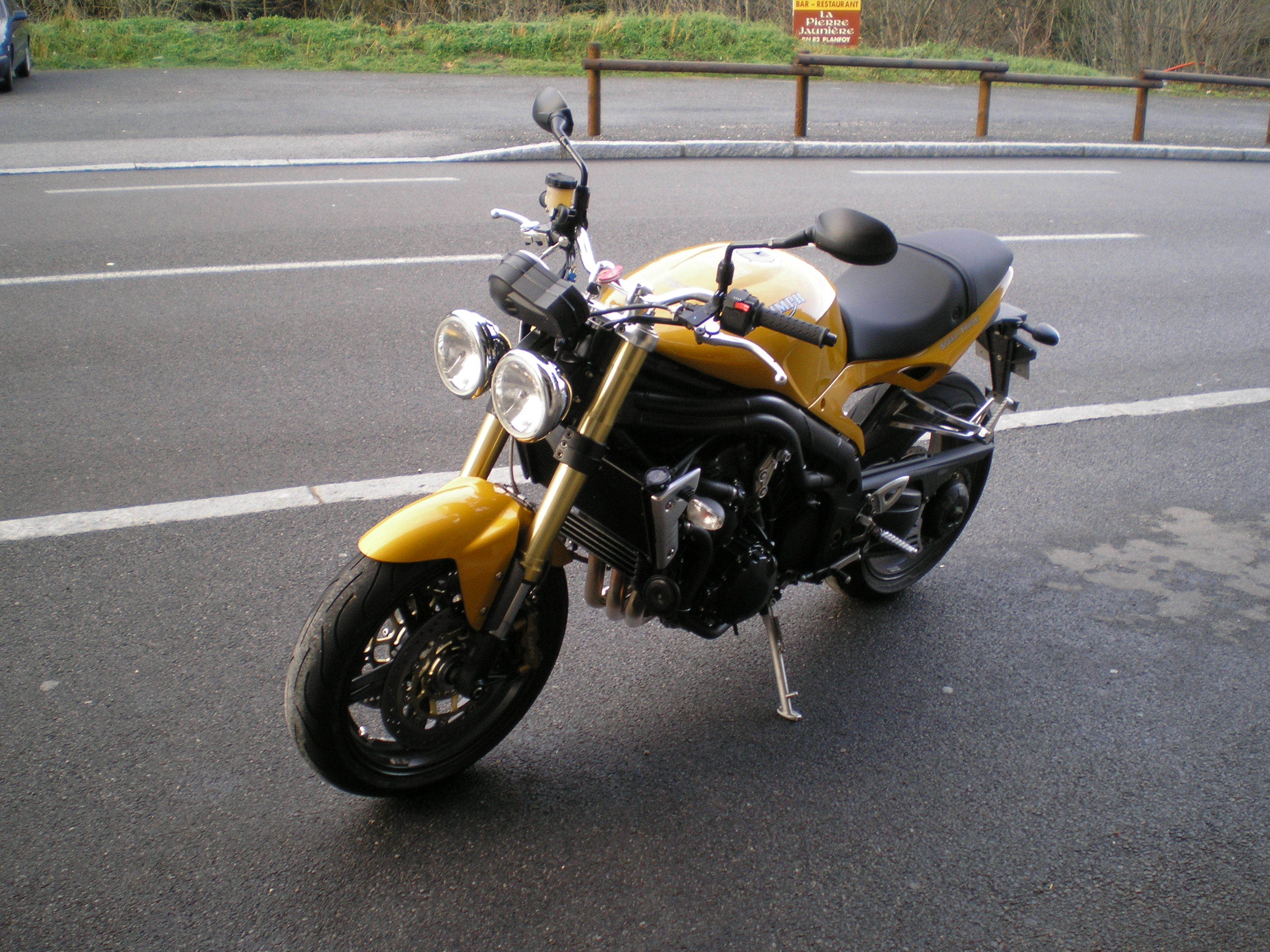 Triumph Speed Triple 1050